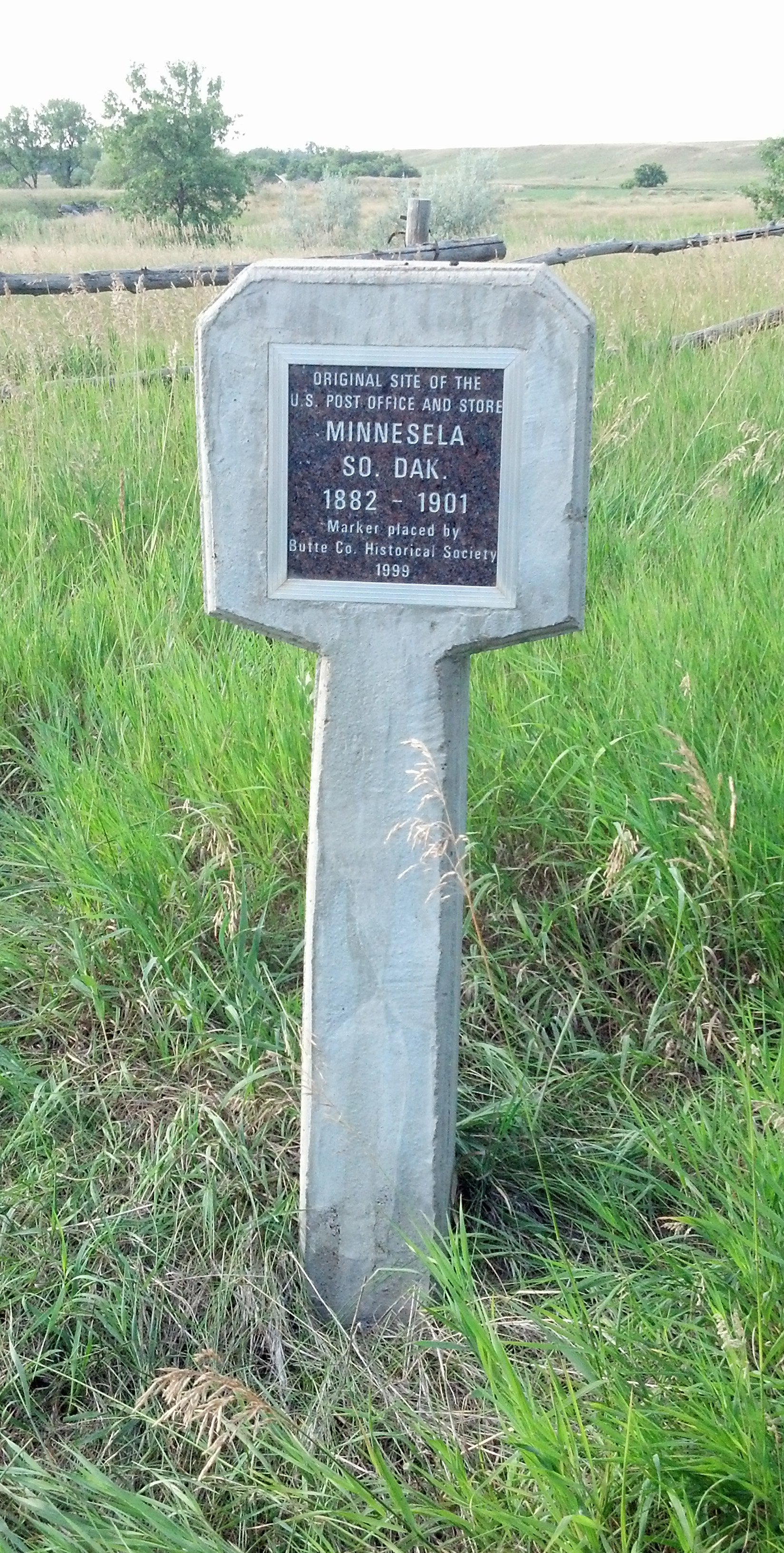 This monument marks the former site of the post office and store in Minnesela, South Dakota.